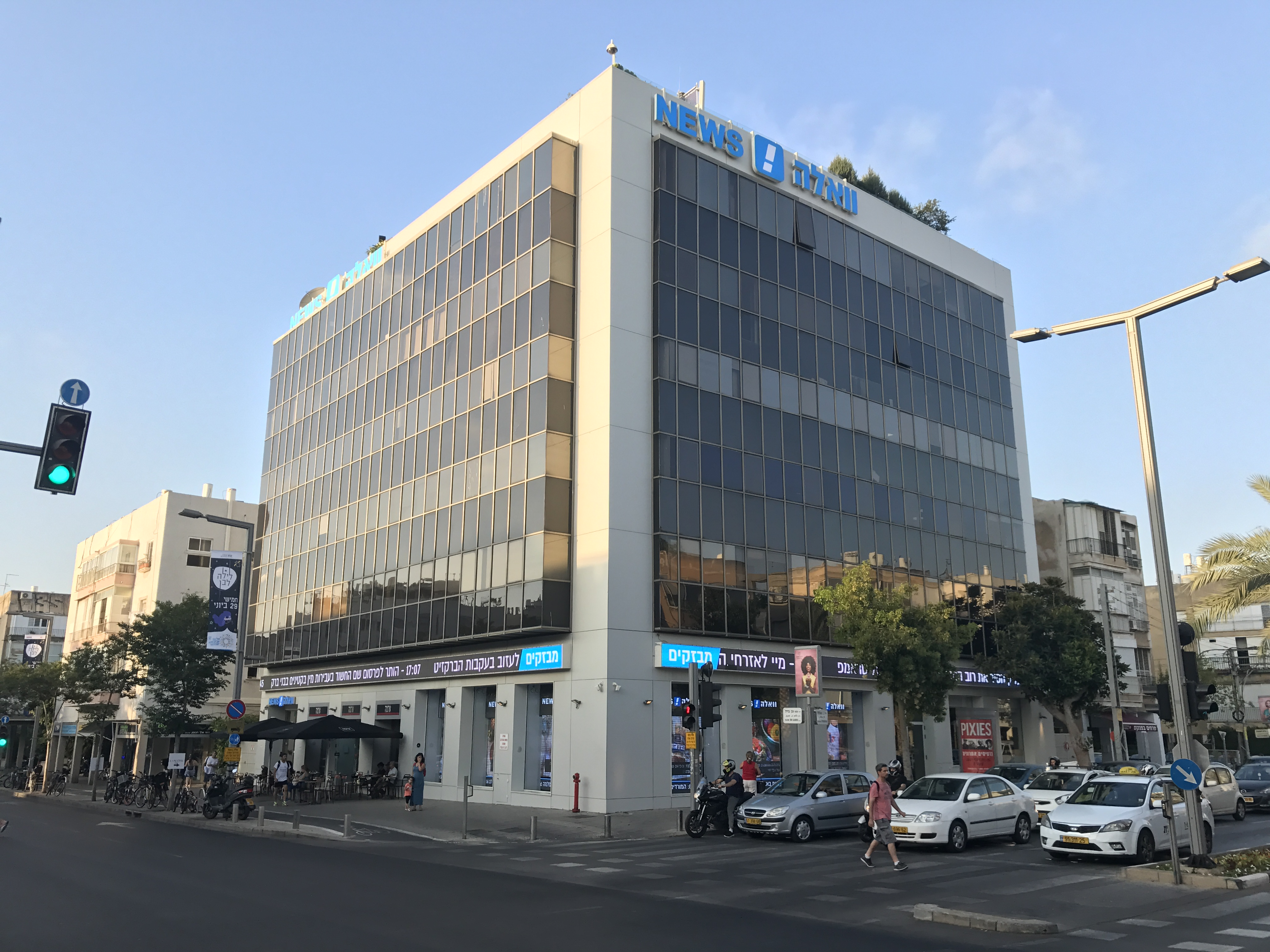 Walla! News building in Tel Aviv